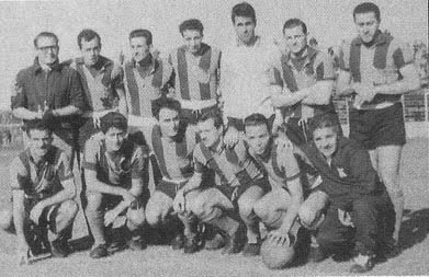 San Telmo 1961 football squad, champions that year.